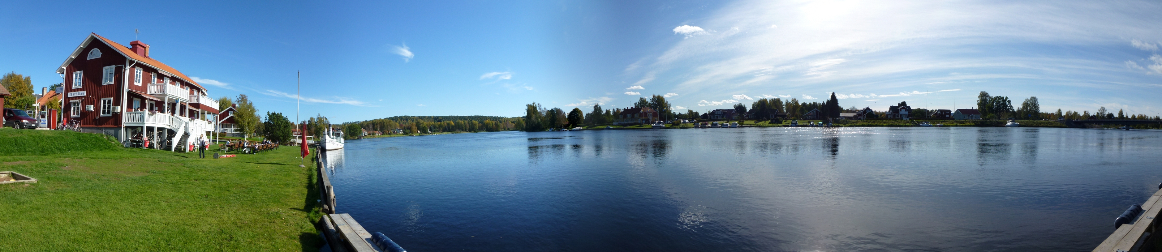 Café Torsång on the banks of river Dalälven, Dalarna, Sweden.